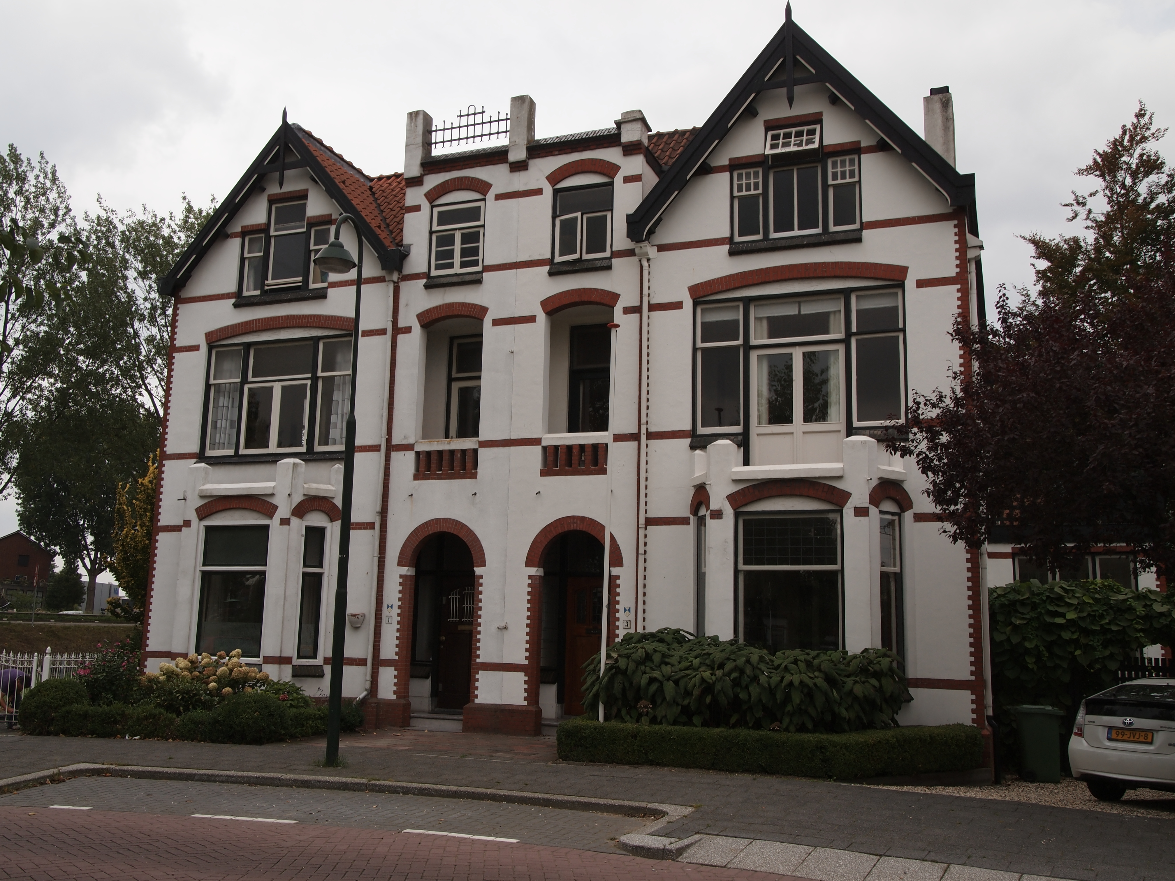 House in Gouda from 1912. This park is named after A. A. van Bergen IJzendoorn